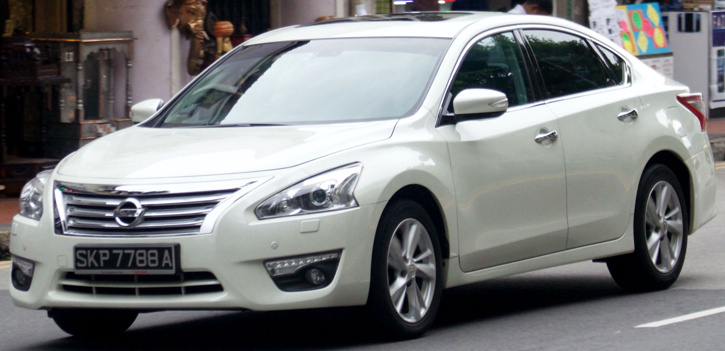 2014 Nissan Teana (L33) 2.5XV sedan. Photographed in Singapore.